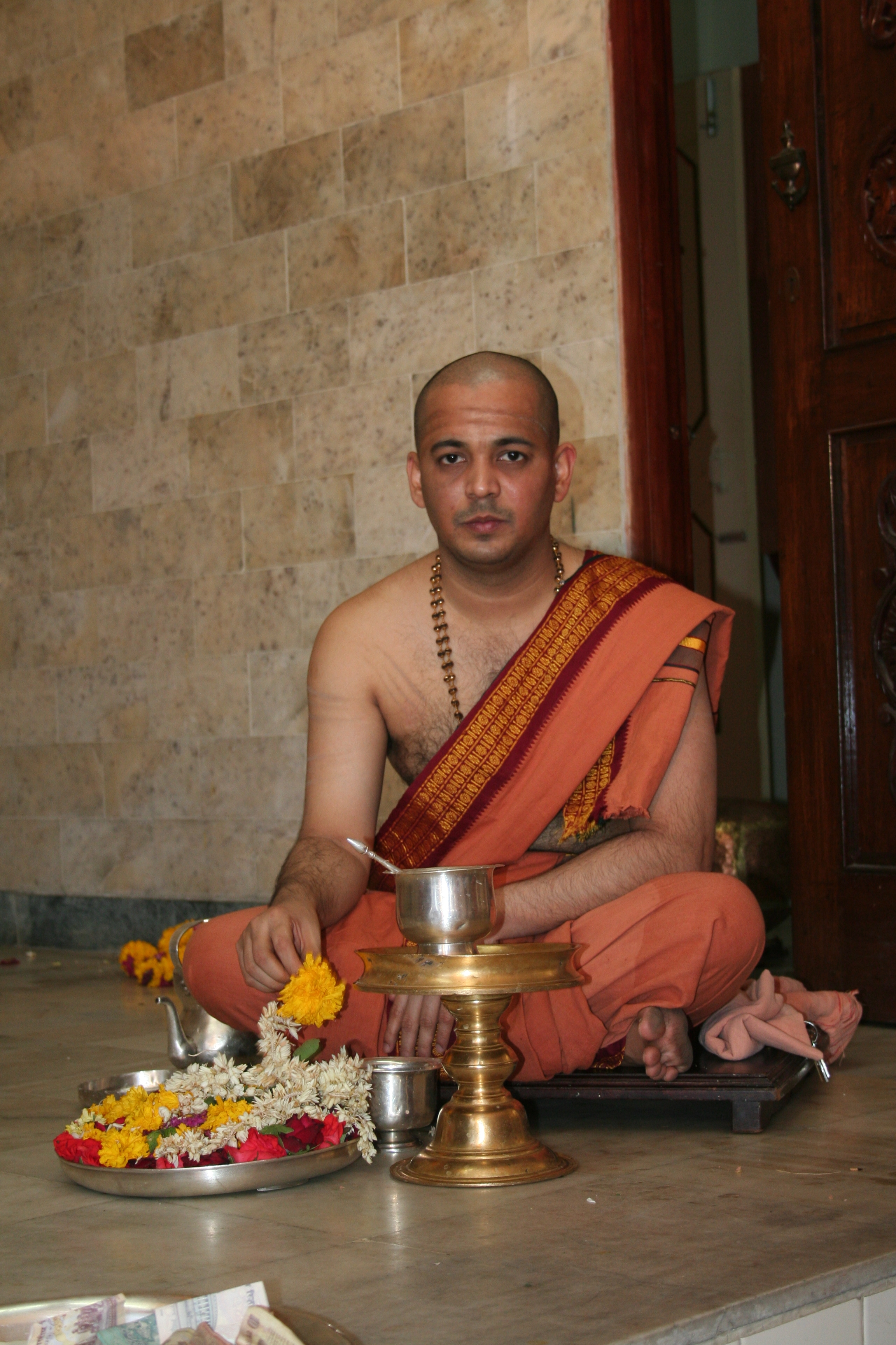 Shri Shivananda Saraswati Swami Maharaj Gaudapadacharya